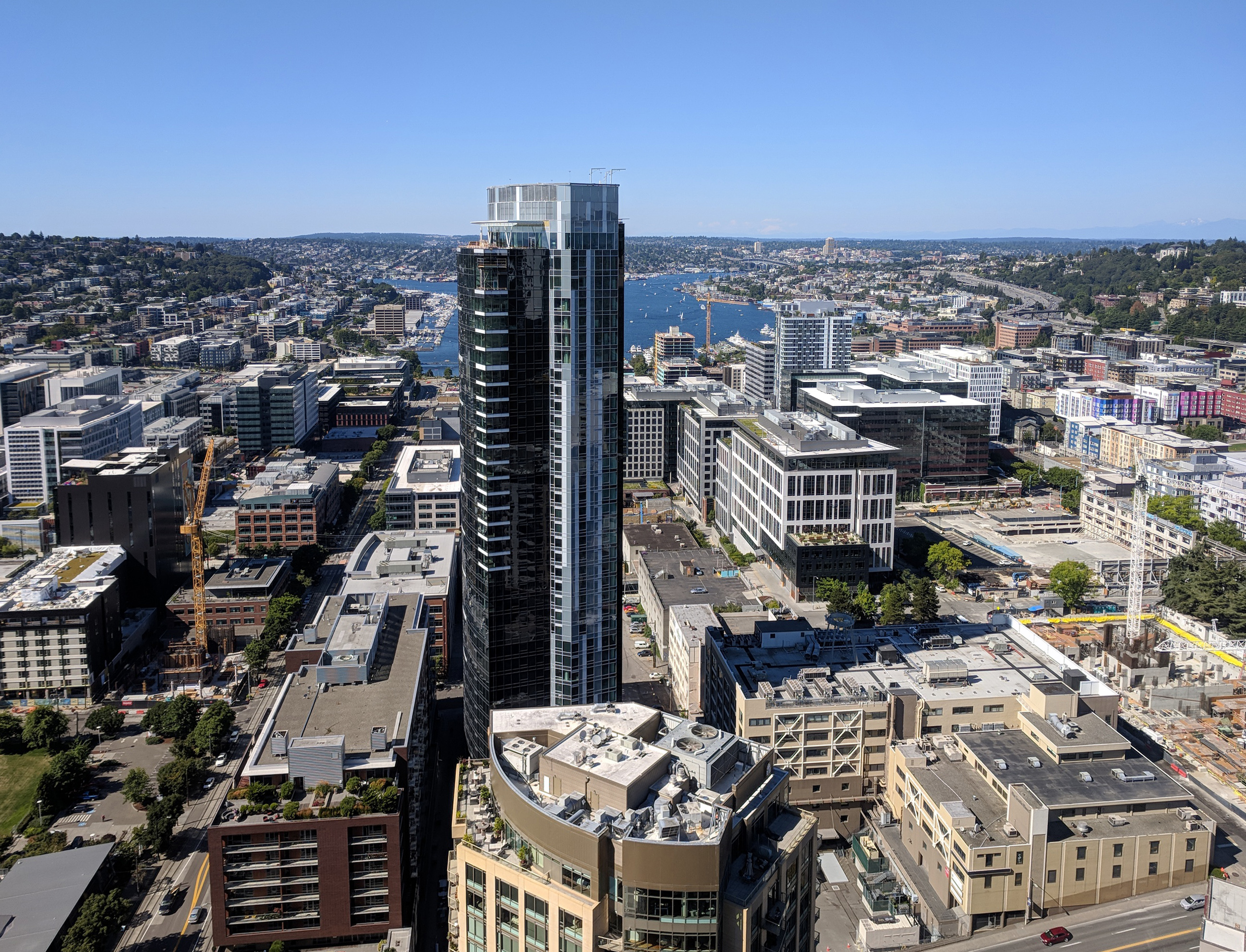 South Lake Union neighborhood, viewed from the top of the Stratus building a few blocks south the Denny Street border